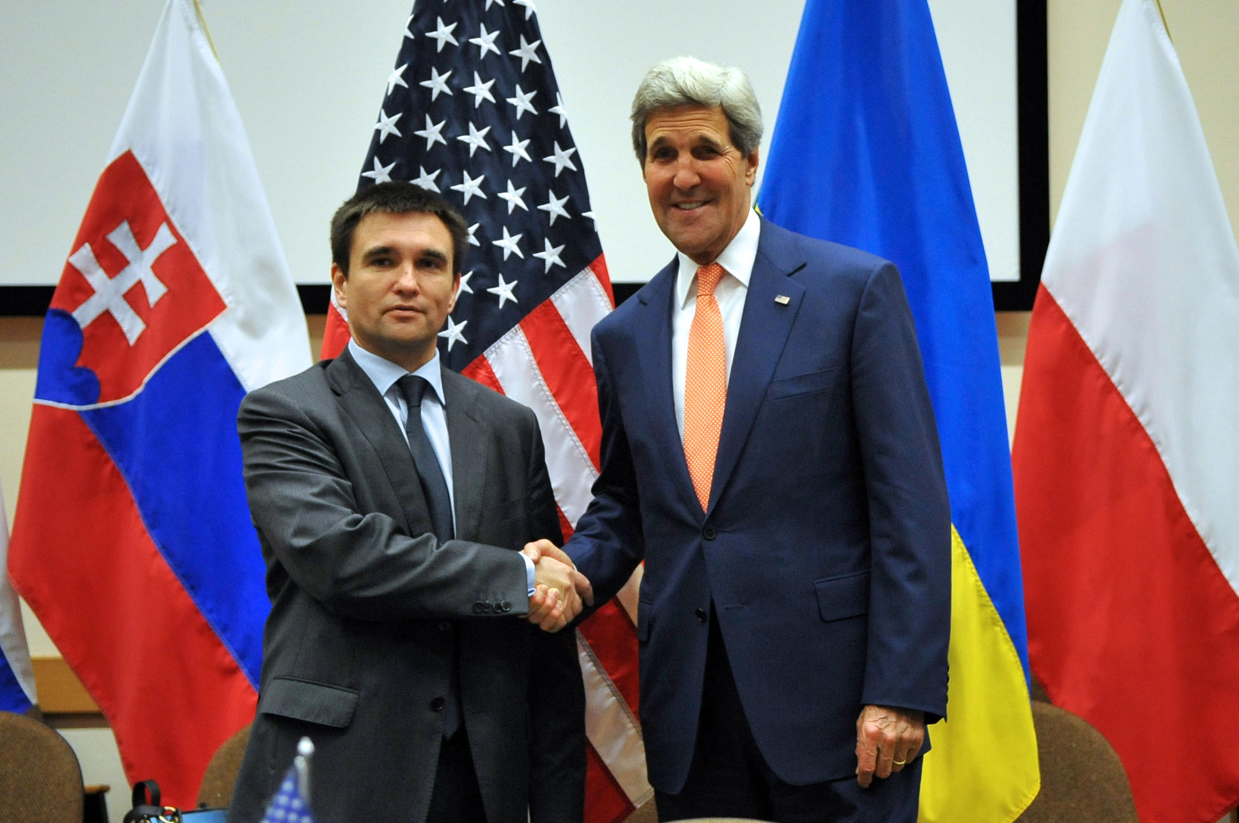 U.S. Secretary of State John Kerry poses for a photo with newly installed Ukrainian Foreign Minister Pavlo Klimkin at the outset of a bilateral meeting on the margins of a series of ministerial discussions focused on Ukraine, Afghanistan, and other NATO issues at the alliance's headquarters in Brussels, Belgium, on June 25, 2014.